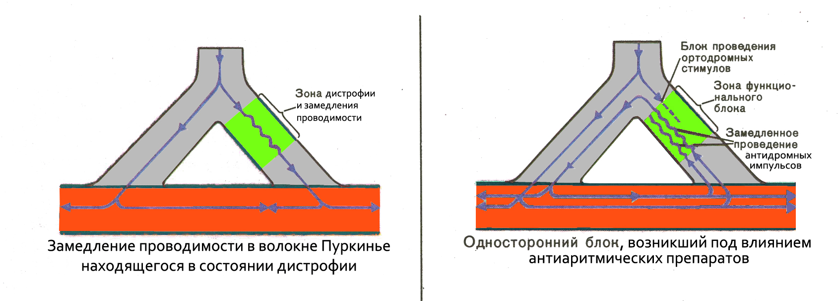 Arrythmogenesis by antiarrythmic agents